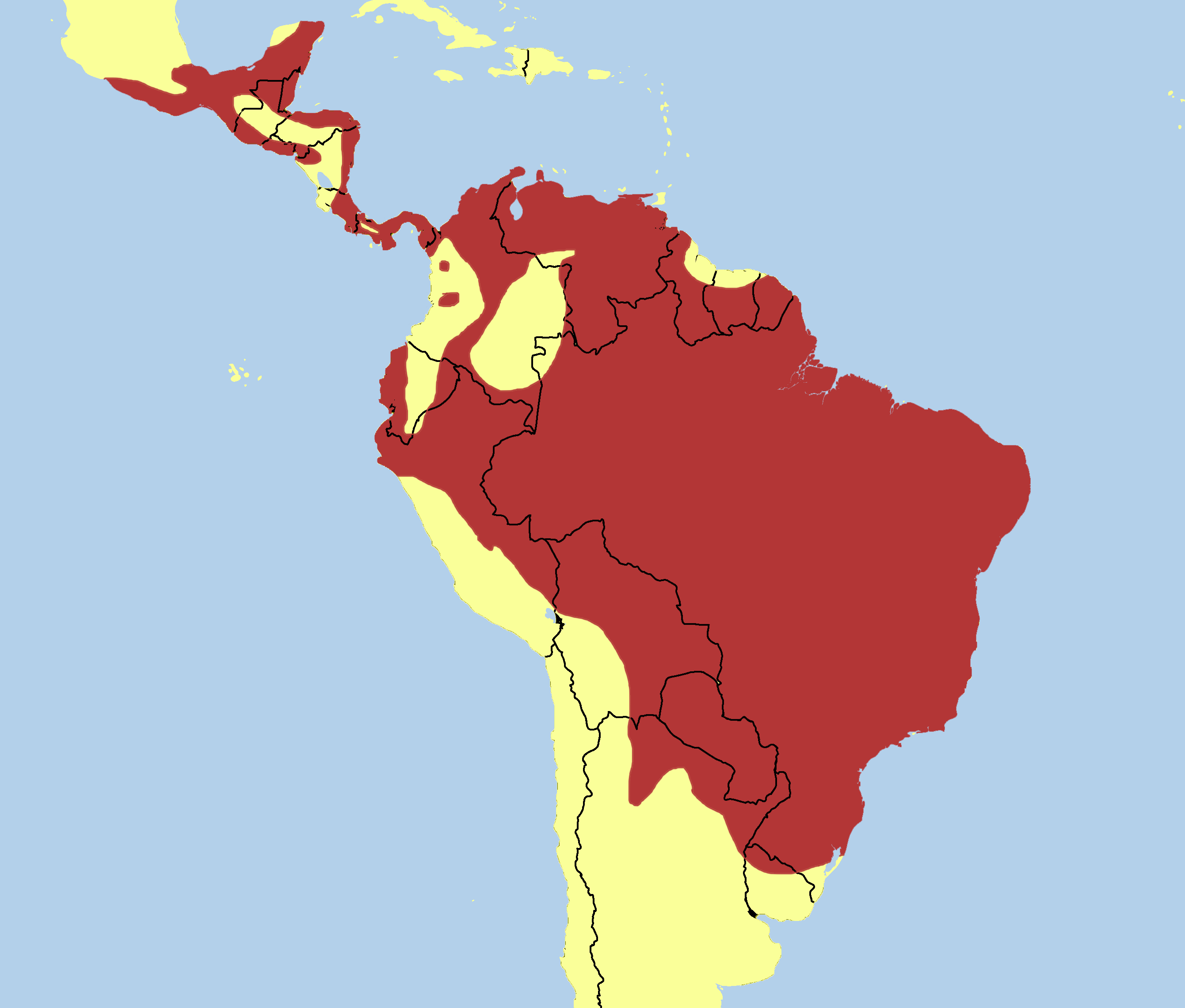 The Distribution of the King Vulture